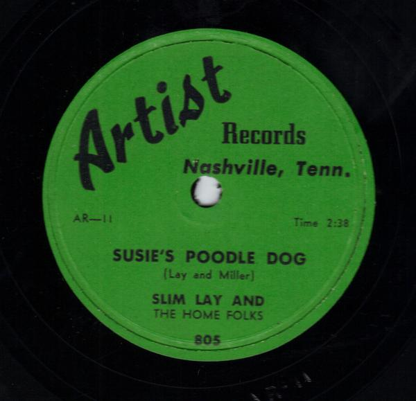 Susie's Poodle Dog by Slim Lay and the Home Folks, Artist [unknown year].